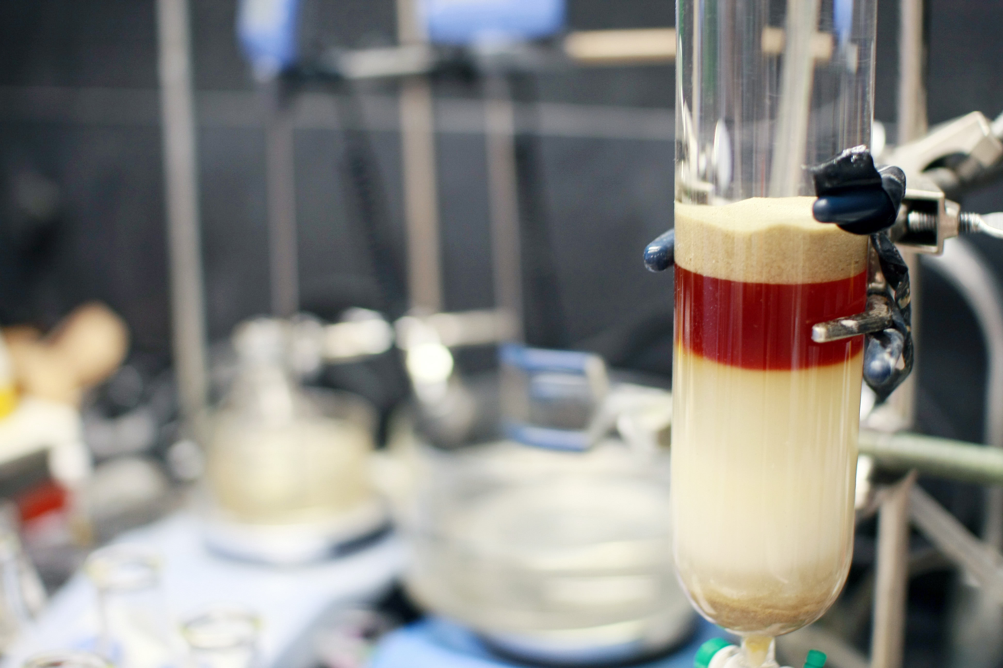 Chromatography column - Columbia University Medical Center